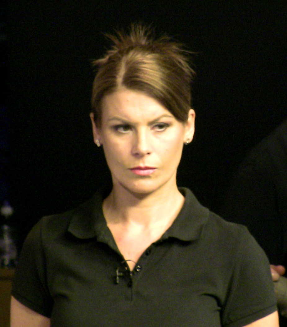 Snooker and pool referee Michaela Tabb at the 2008 Mosconi Cup in Malta.